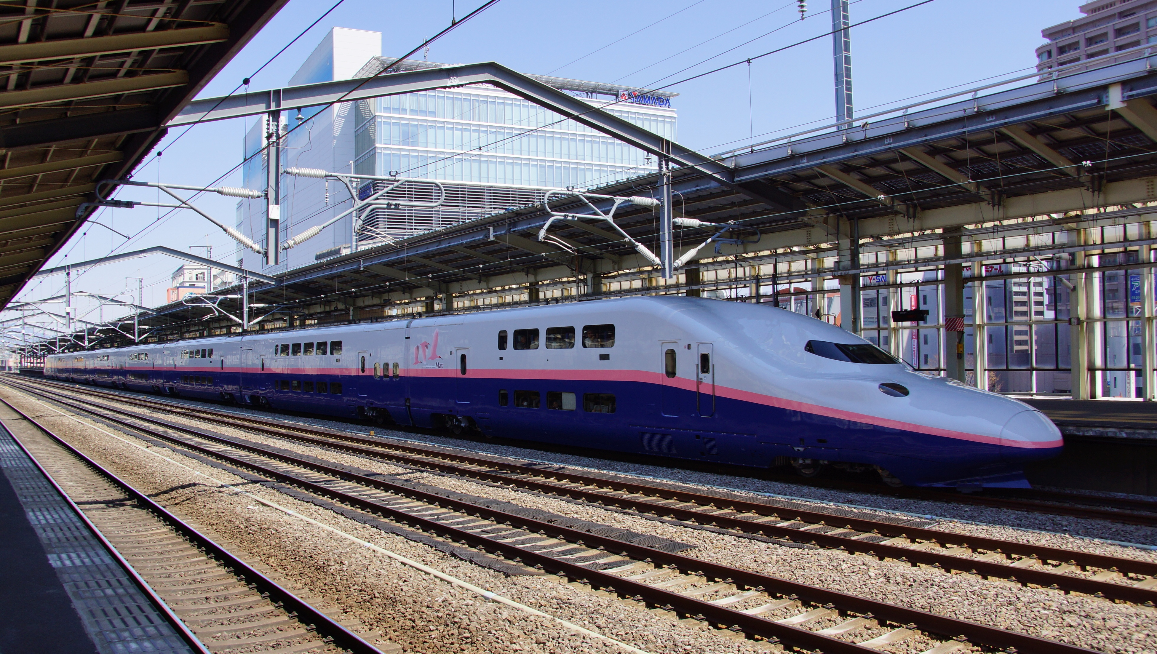 Reliveried JR East E4 series shinkansen set P5 on the Max Toki 316 service from Niigata to Tokyo at Takasaki Station